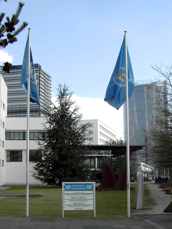 Offices of several UN-agencies in the Bundeshaus building, Bonn